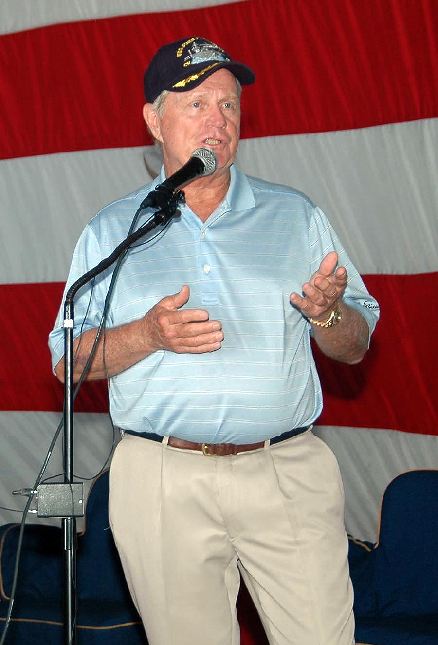 060927-N-4549D-002 Golfer Jack Nicklaus fields questions from Mayport-area sailors who filled the hangar bay of the USS John F. Kennedy (CV-67) to see the golfer. During his visit to the Naval Station, Nicklaus met with Mayport-area Sailors and received a personal tour of the Kennedy by Commanding Officer Capt. Todd A. Zecchin.